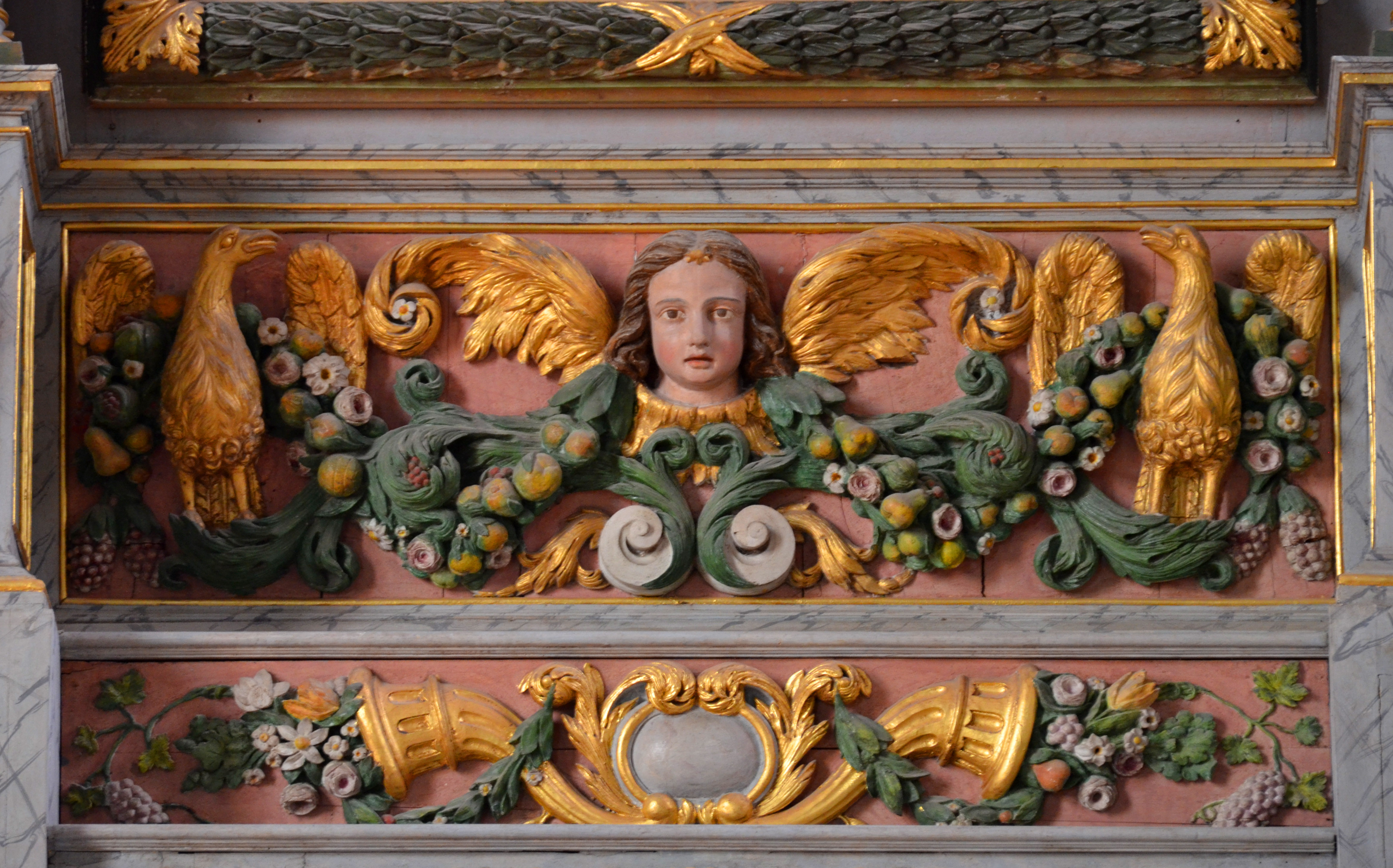 Sizun church in Brittany ( in western France), after restoration.